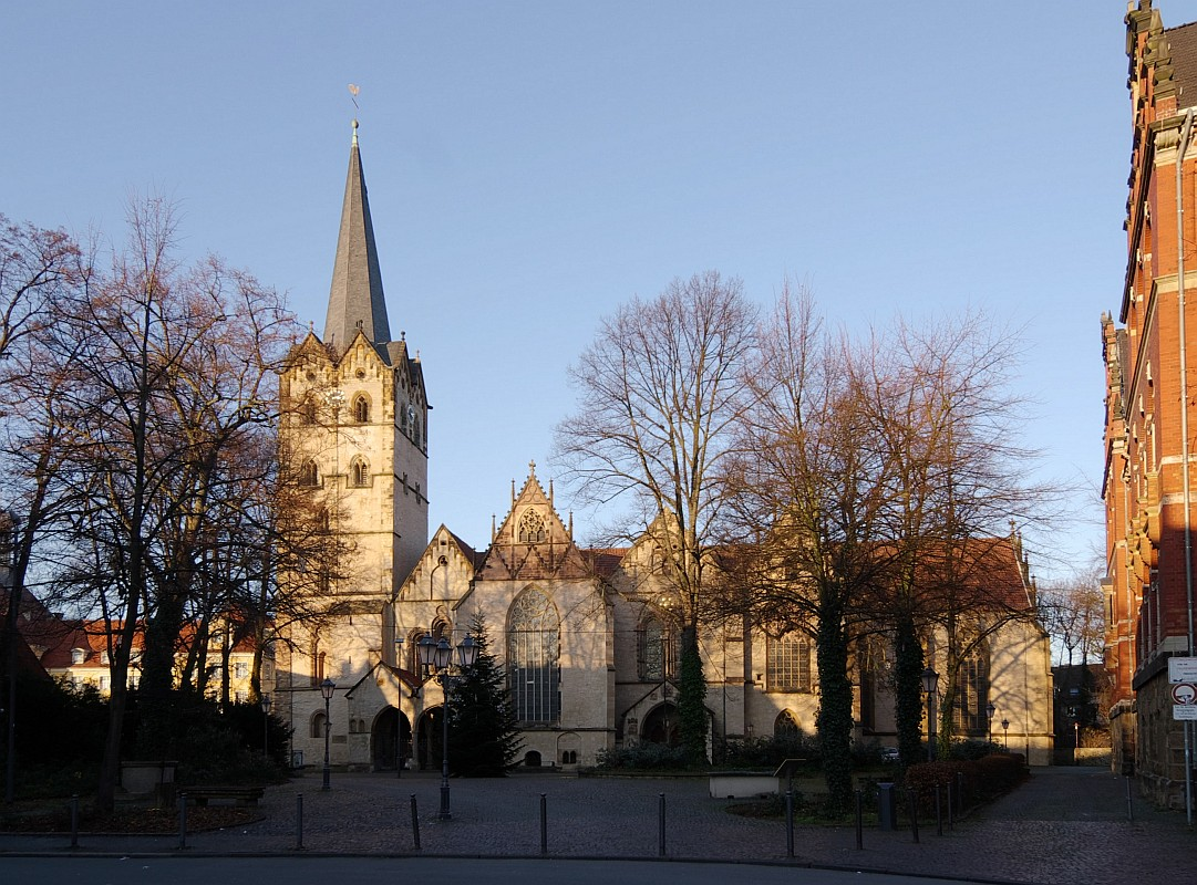 Münsterkirche in town of Herford, District of Herford, North Rhine-Westphalia, Germany.